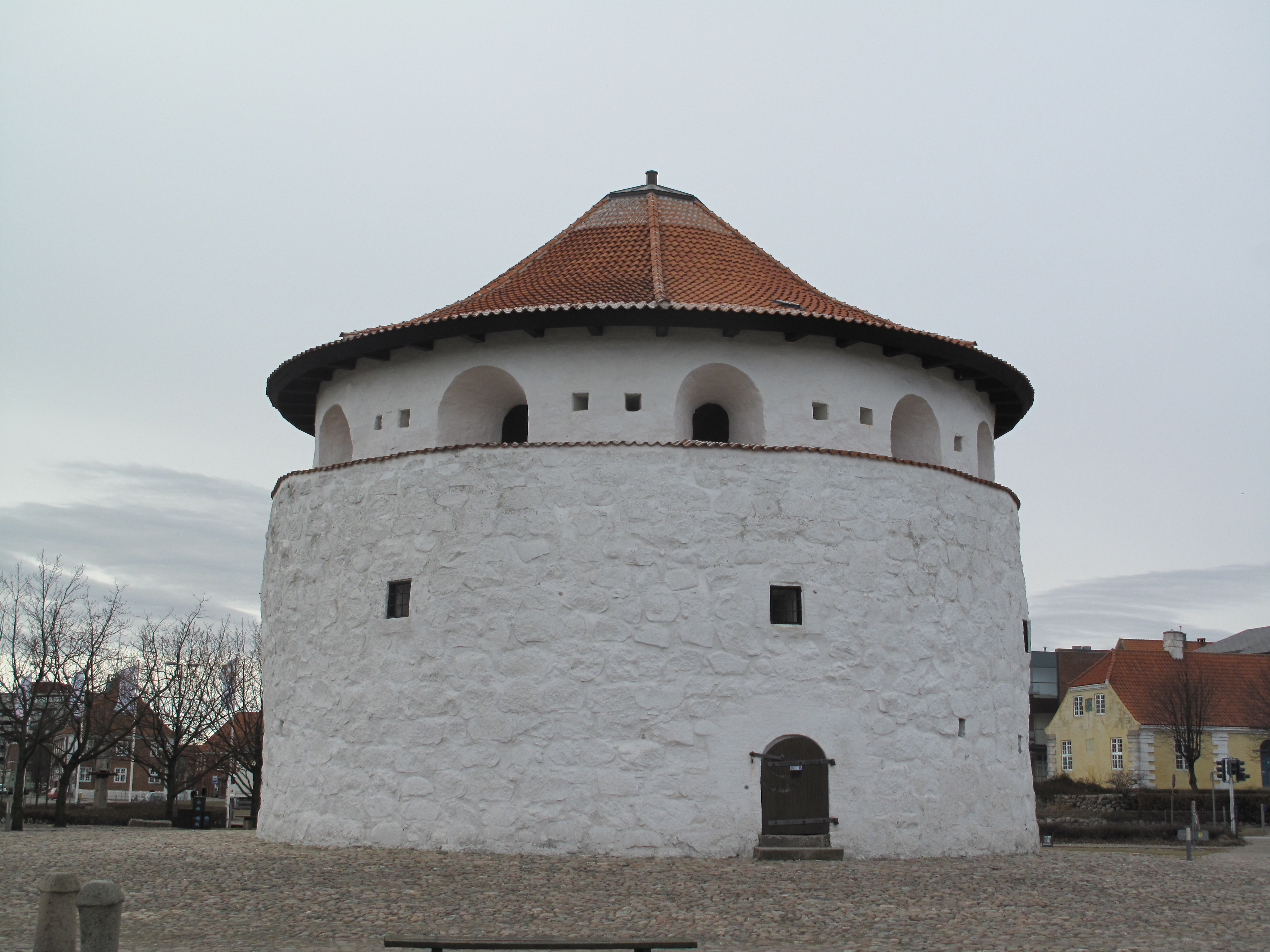 Gun powder tower in Frederikshavn, Denmark.